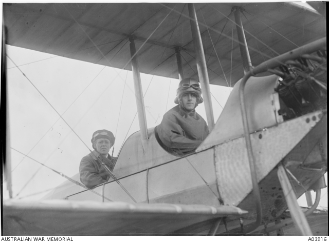 Lieutenant E Harrison (later Major) (left) and Lt H A Petre (later Major) Australia's first two military flying instructors, in a B.E.2a at Central Flying School at Point Cook, Vic.